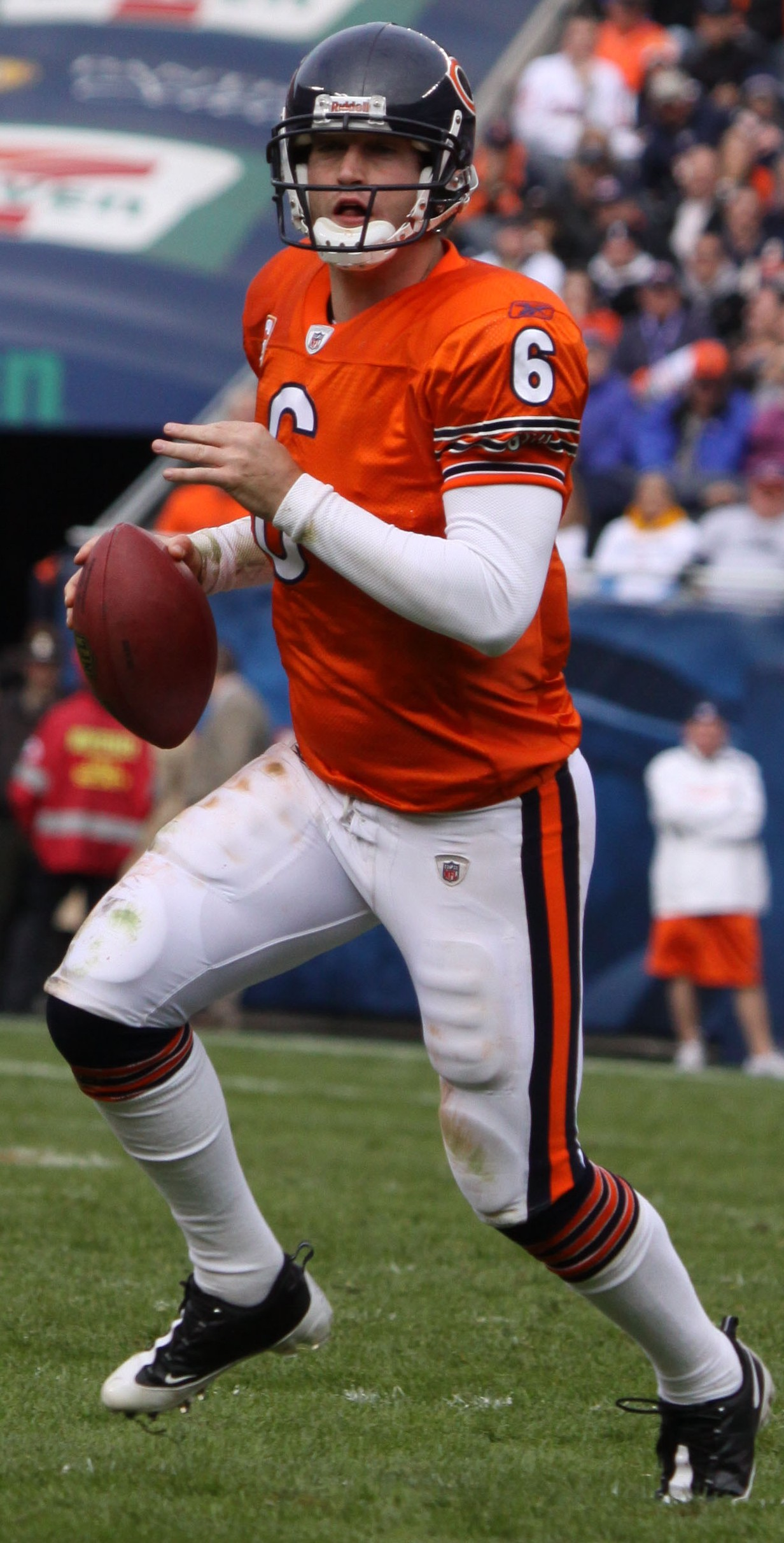 JAY CUTLER, of the Chicago Bears, in action during the Bears game against the Cleveland Browns on November 1, 2009 in Chicago, IL.